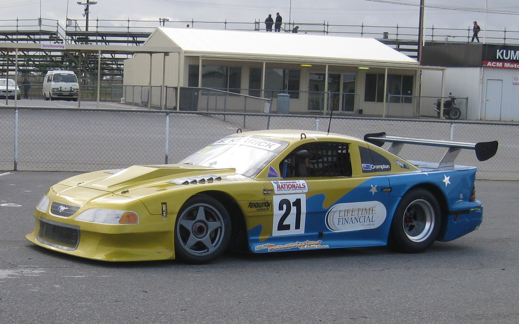 The Ford Mustang of Phil Crompton at Mallala Motor Sport Park for Round 2 of the 2010 Kerrick Sports Sedan Series